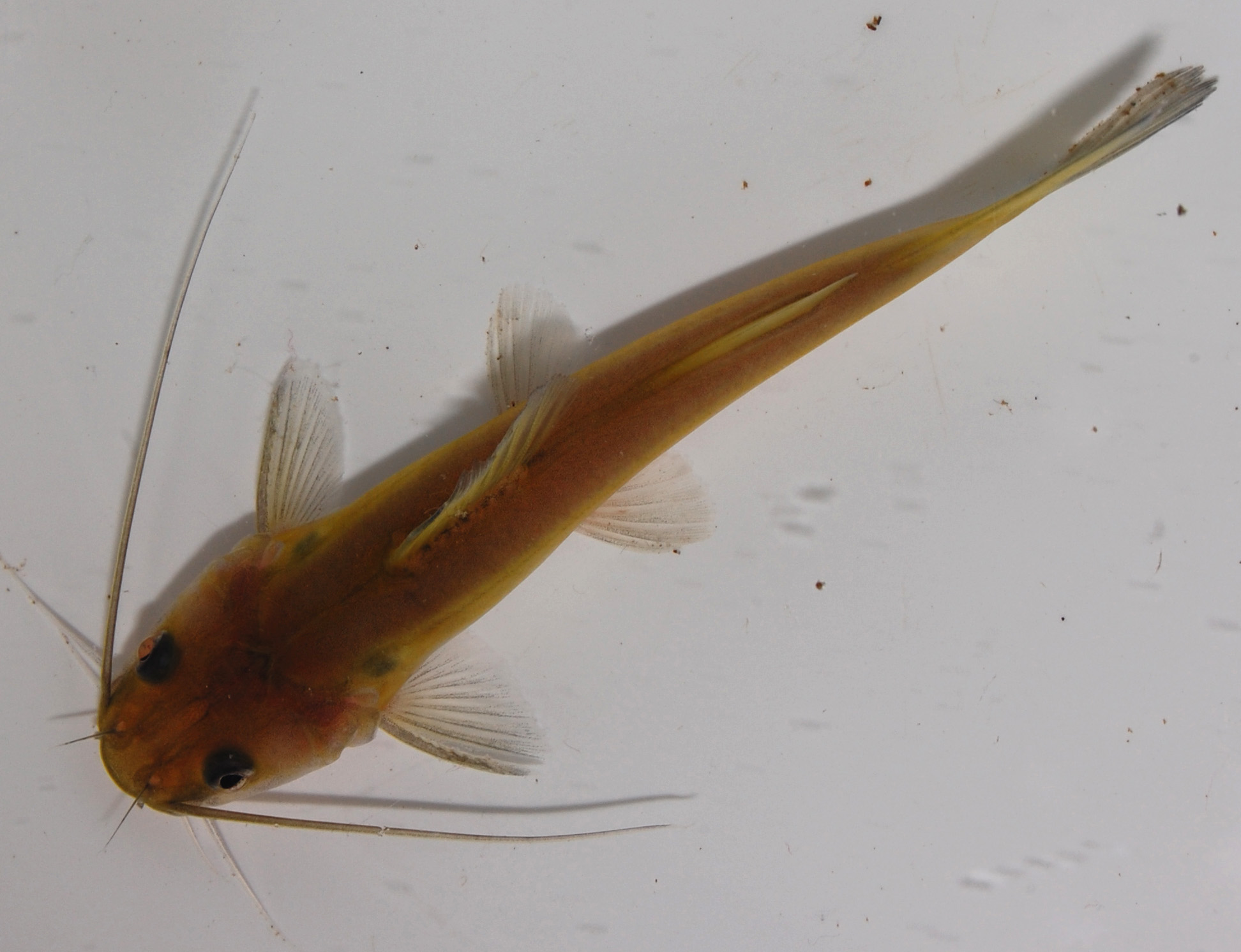 Hemibagrus planiceps (77mm SL). From Cikupret (small stream) of Cisadane drainage at Darmaga (6°34’S 106°43’E), Bogor, West Java, Indonesia